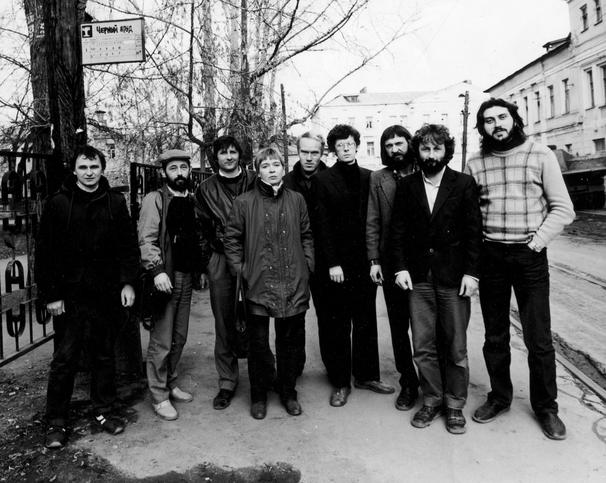 Группа нижегородских художников, членов творческого объединения "Чёрный пруд"